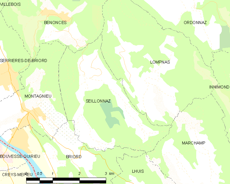 Map of French commune: Seillonnaz Map commune FR insee code 01400.png